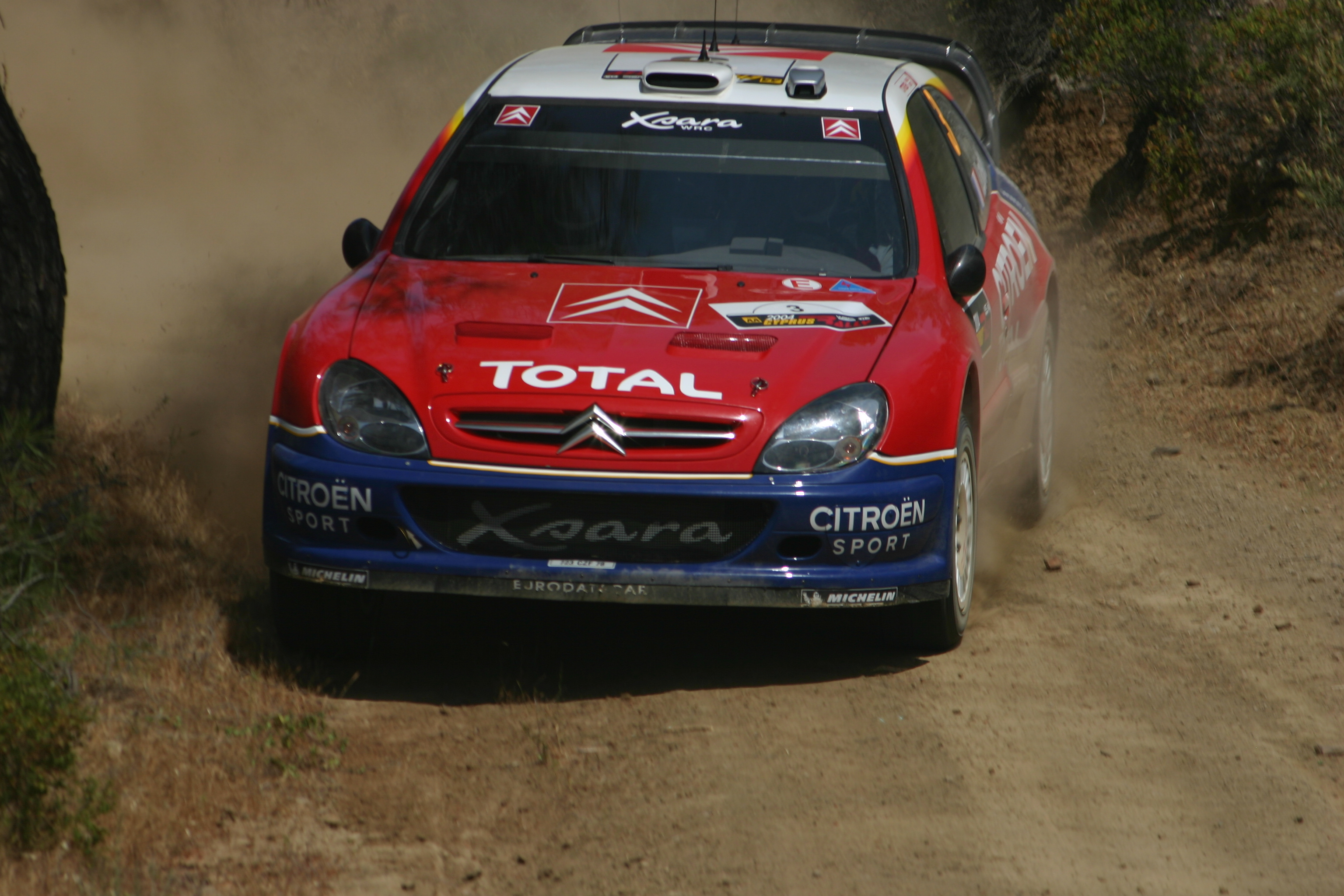 Sébastien Loeb driving his Citroën Xsara WRC during the shakedown of the 2004 Cyprus Rally.